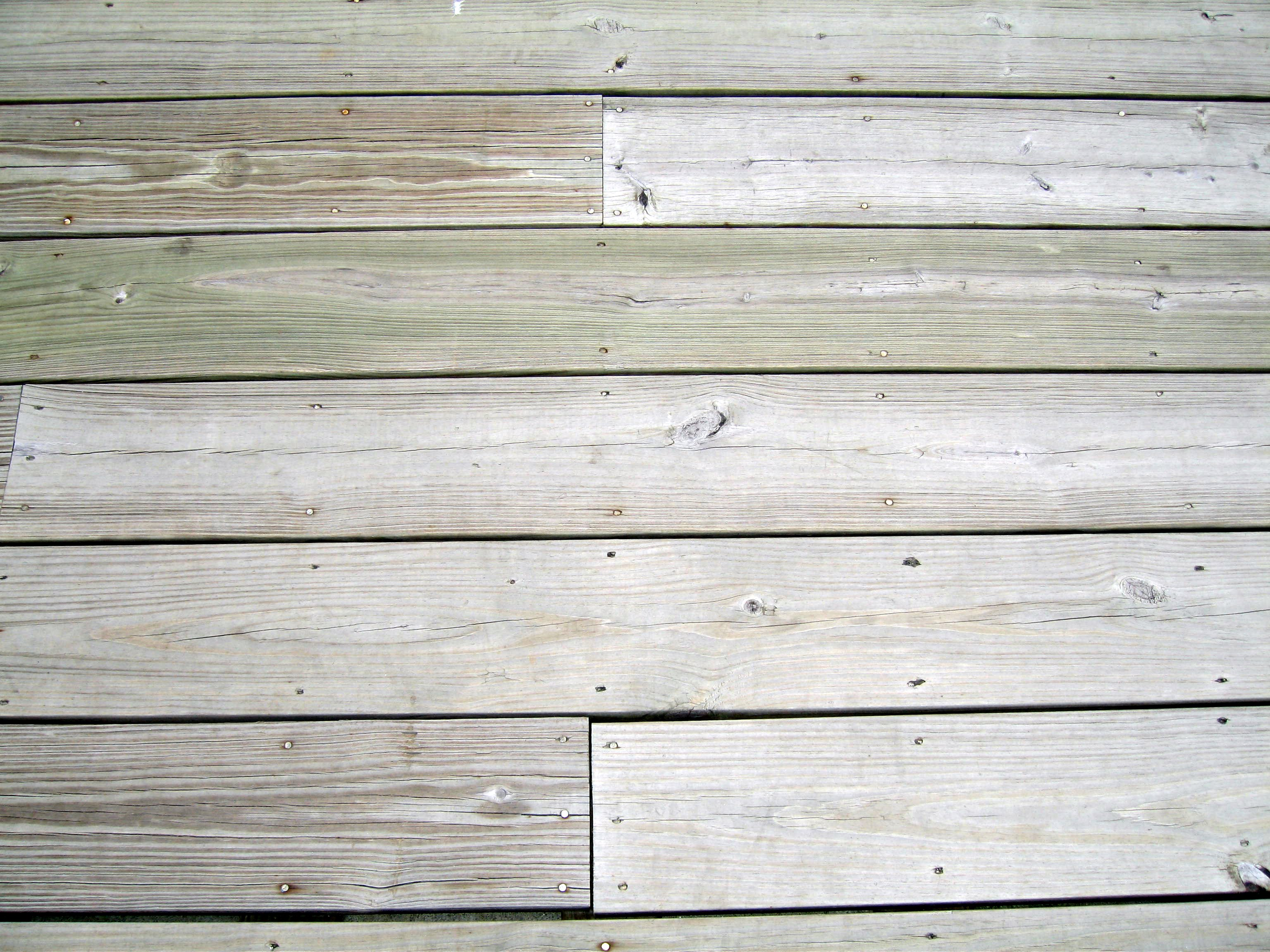 Wooden boards or planks, held together with nails.